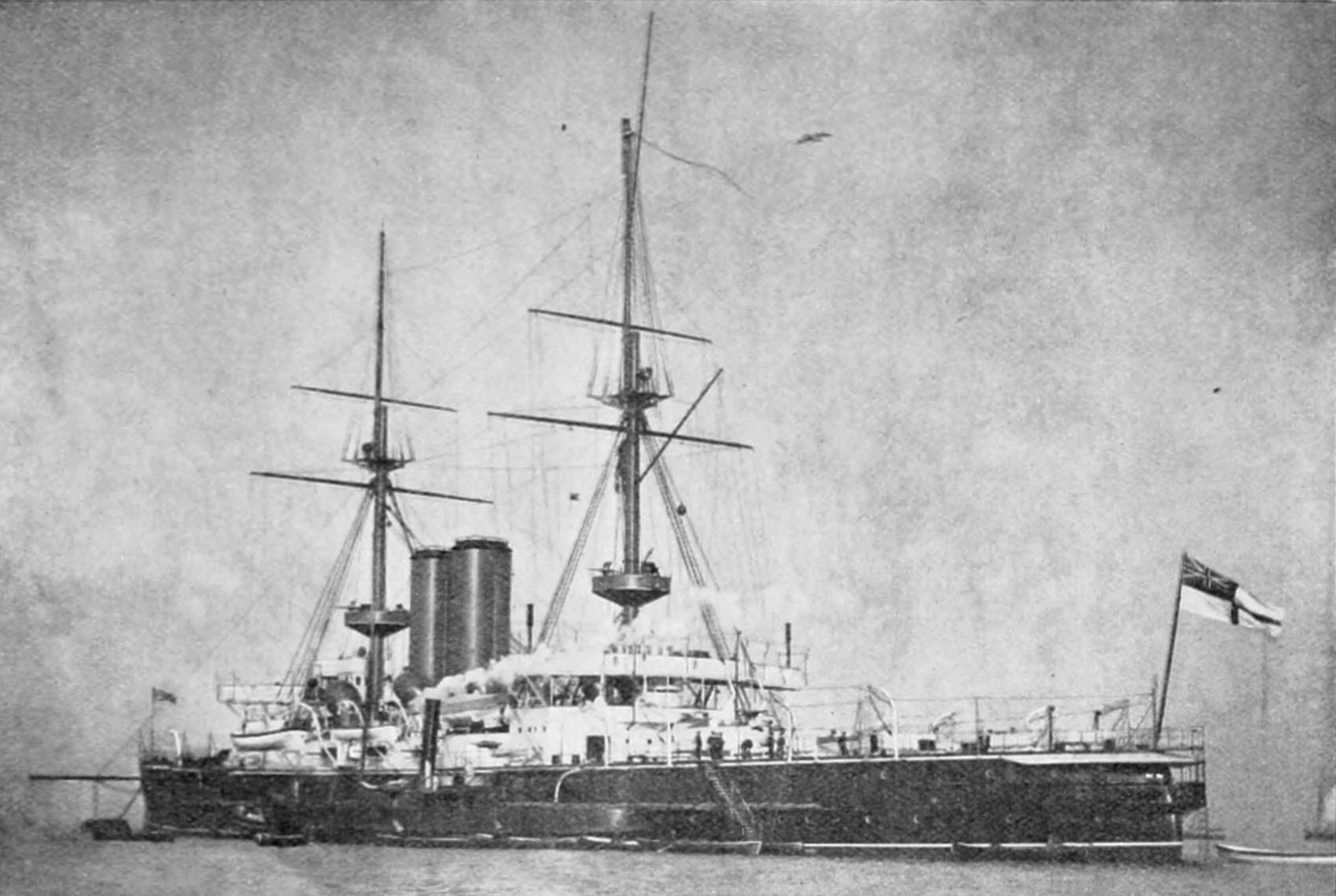 Original caption 'H. M. twin screw, steel, barbette battleship HMS Glory . Canopus class battleship (1899-1922)